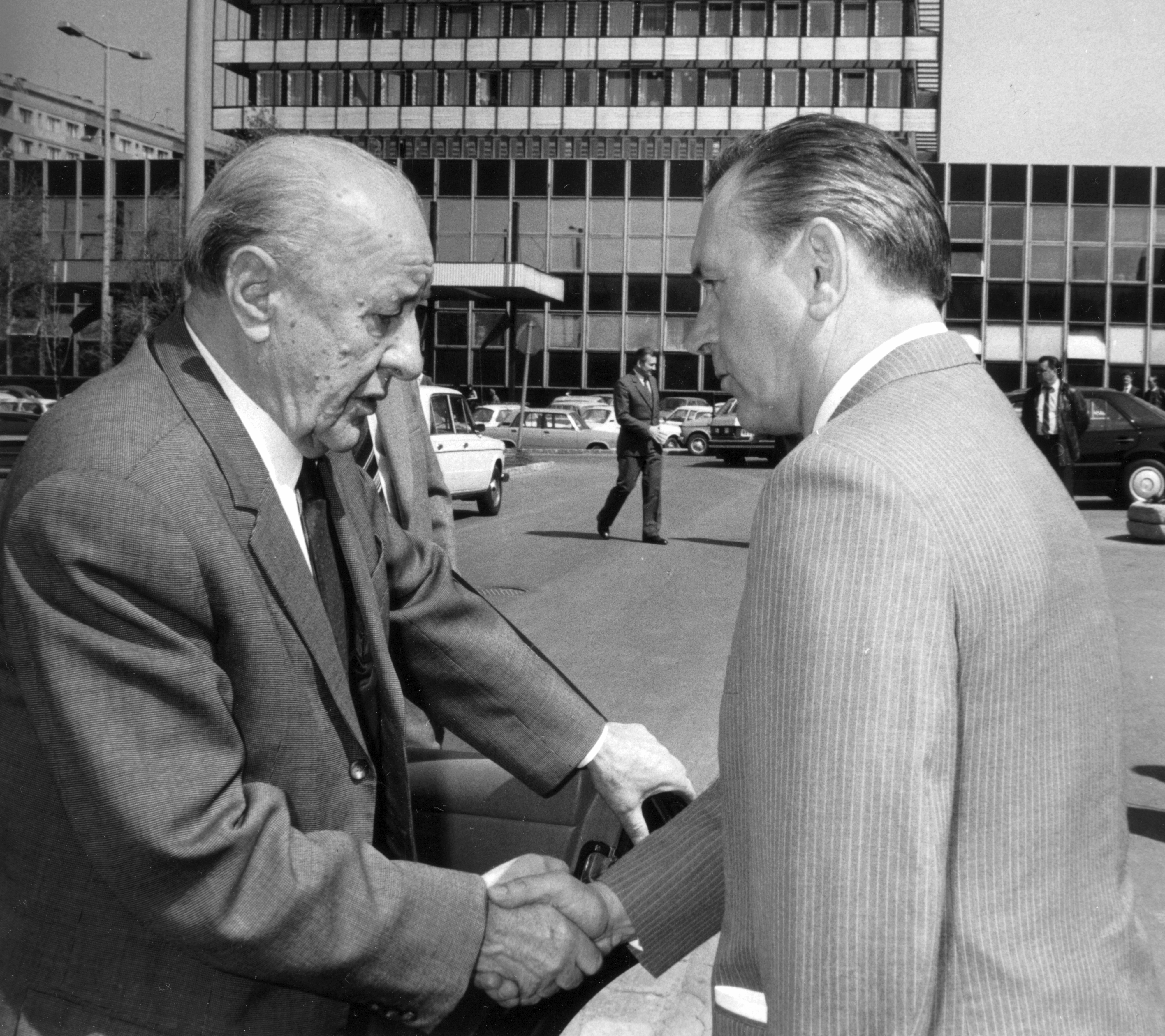 Secretary-General János Kádár and Károly Grósz, First Secretary of the Party Committee in Budapest in 1986 at Váci Road. Later, in 1988, Grósz succeeded Kádár as Secretary-General.